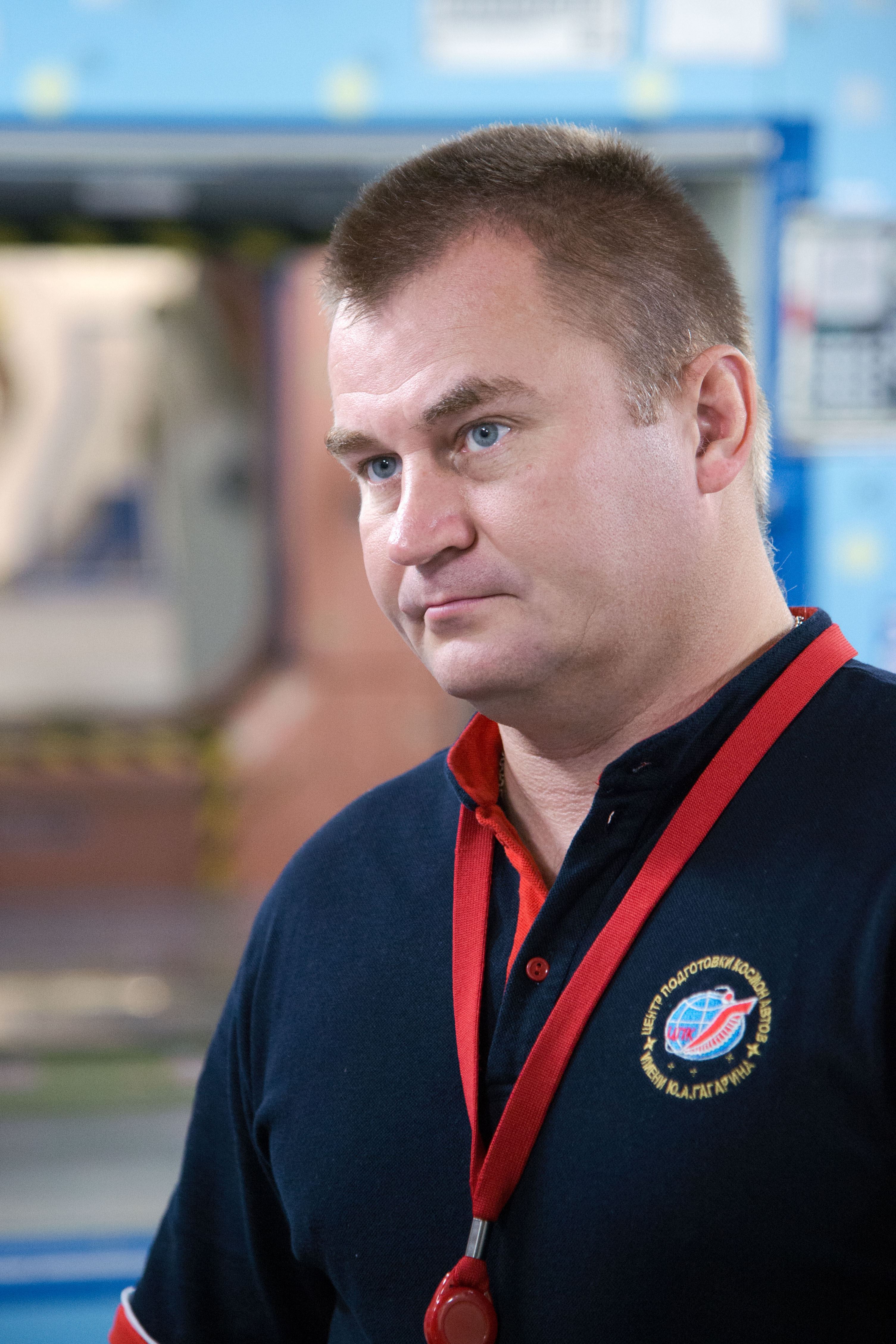 Russian cosmonaut Alexey Ovchinin, Expedition 47/48 flight engineer, is pictured during a space station habitat training session in an International Space Station mock-up/trainer in the Space Vehicle Mock-up Facility at NASA's Johnson Space Center.